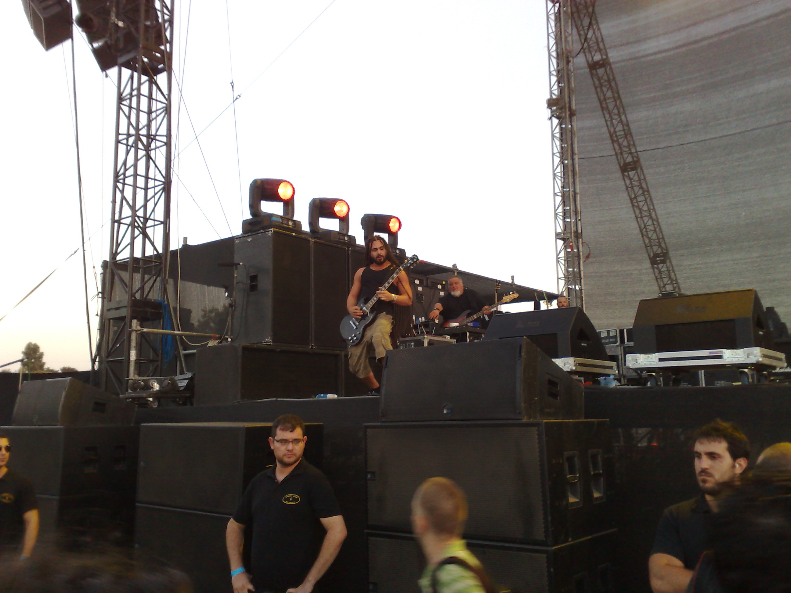 Matan Cohen playing with his band BETZEFER at Ozzfest Tel Aviv 2010.